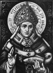 Summary Benno of Meissen, from [1]